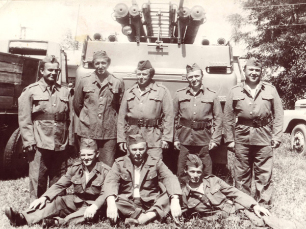 Firefighters from Solčianky